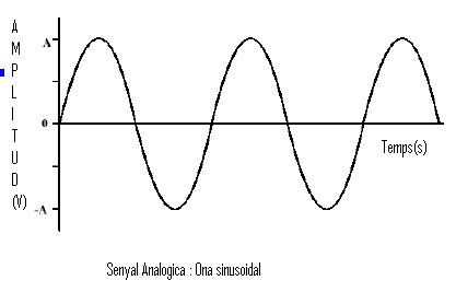 Analogic signal Example